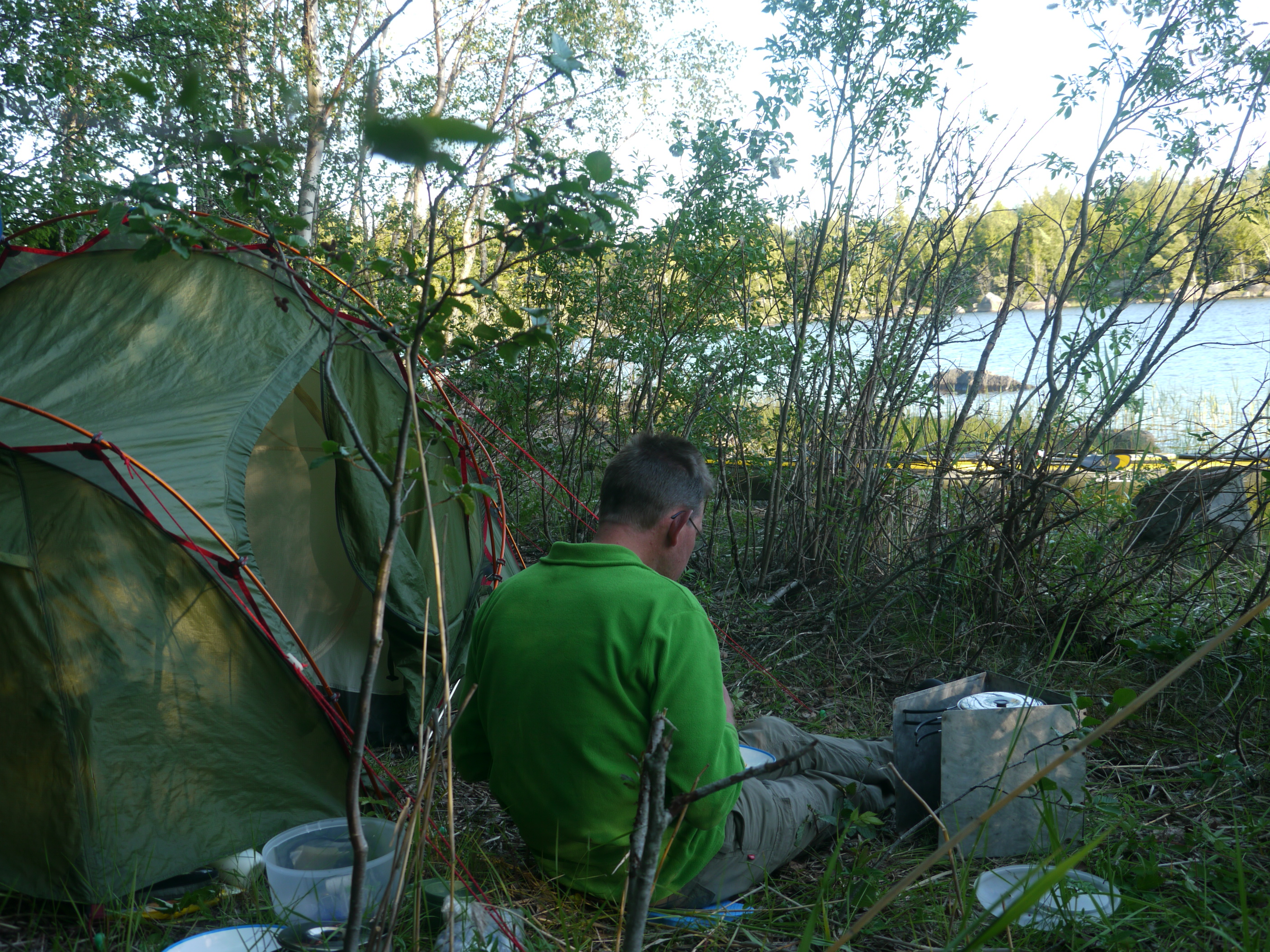 camping in the wild, at the shore of a small lake in west Finland